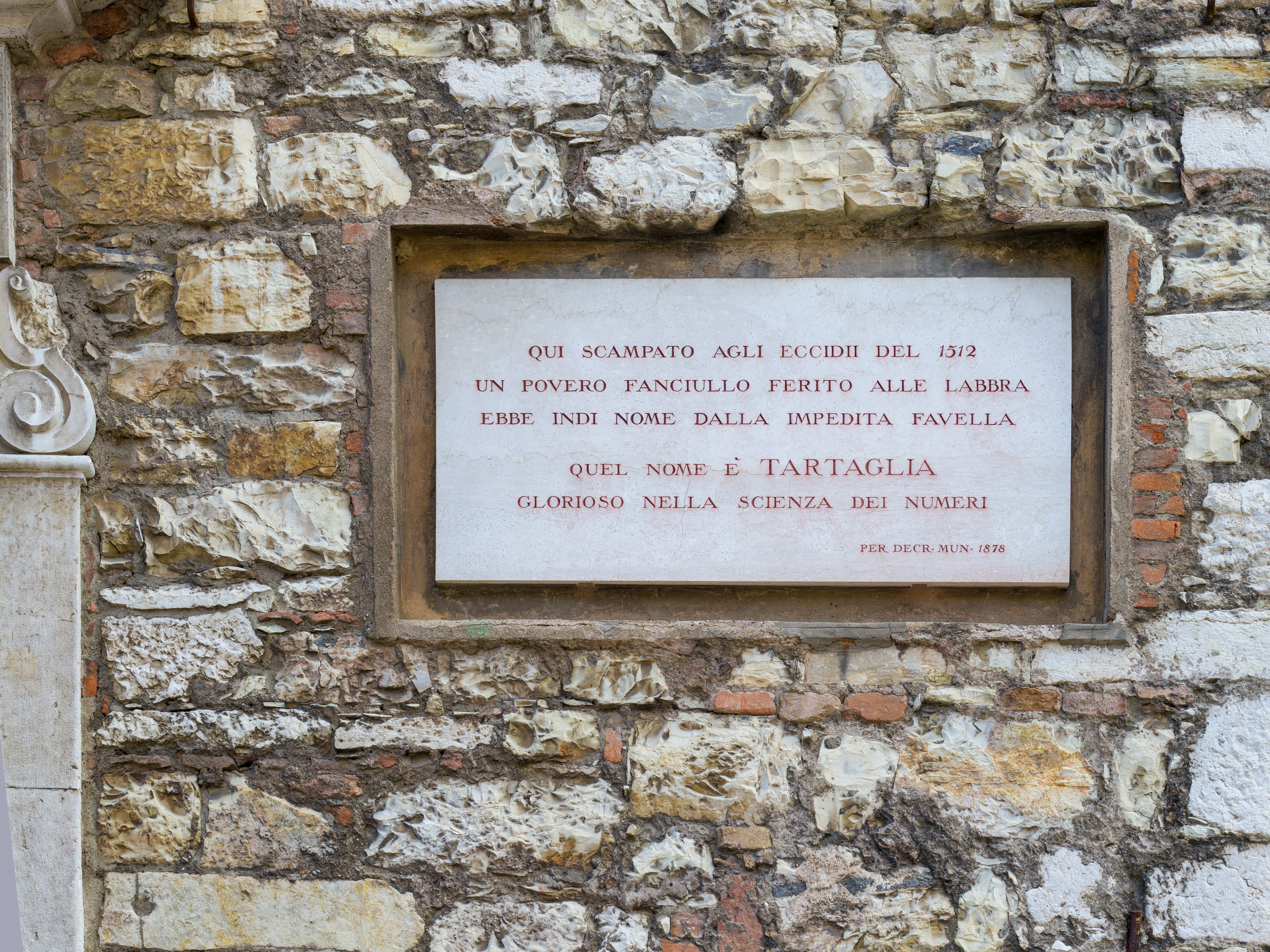 Plaque dedicated to Niccolò Tartaglia Old Cathedral of Brescia.